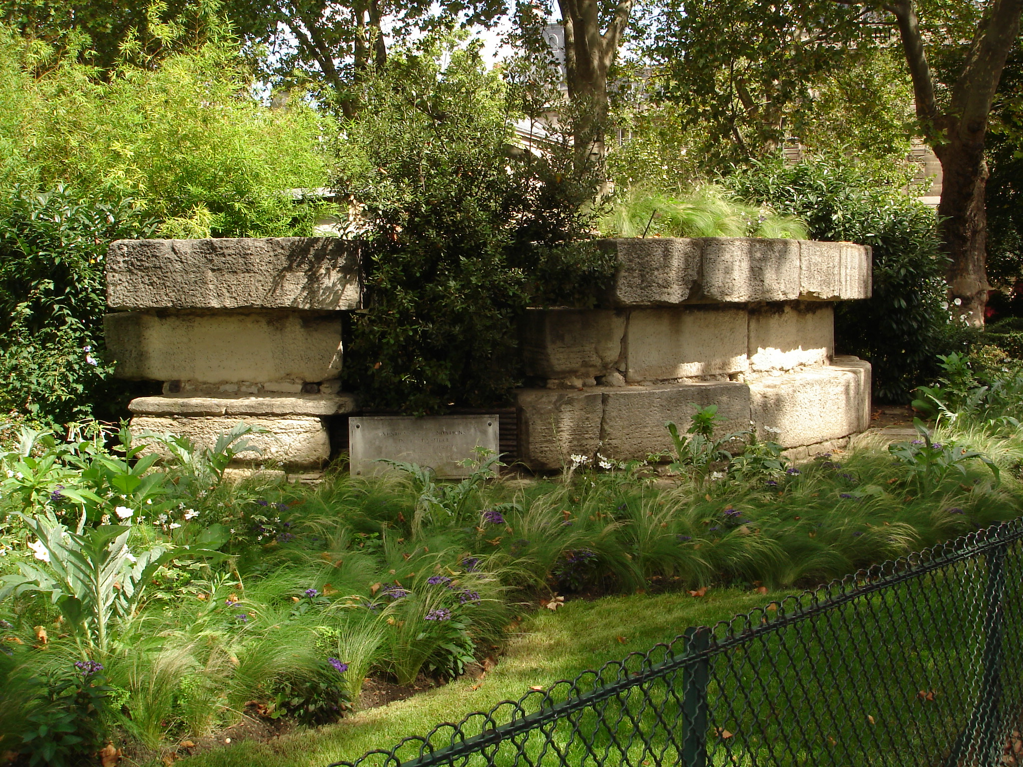 Boulevard Henri IV - Vestige of the foundation of the Bastille. The translation of the text on the plaque is : "Vestiges of the foundations of the Bastille Liberty tower discovered in 1899 and carried to this place